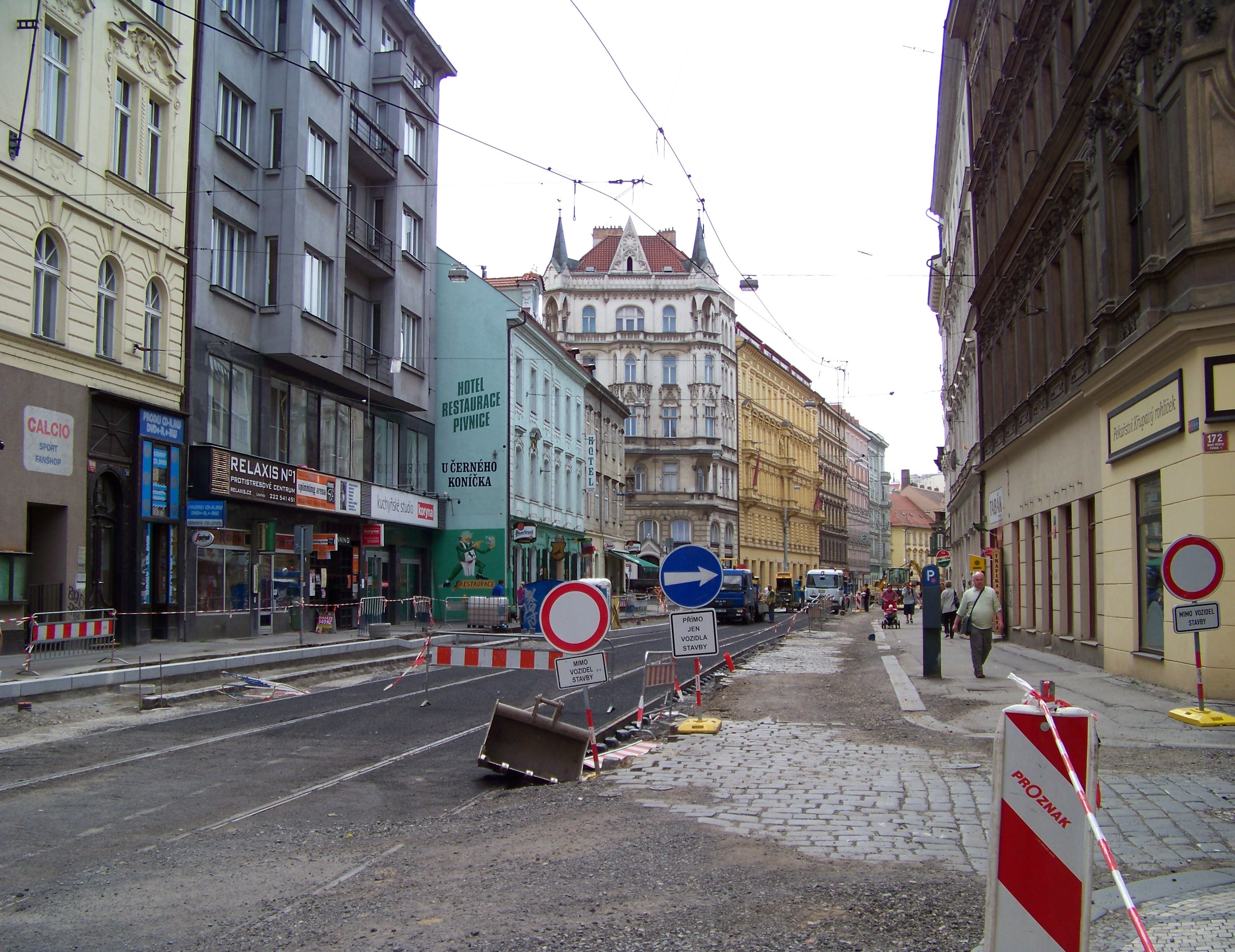 New Town, Prague, the Czech Republic. Myslíkova street, a reconstruction of Myslíkova street.